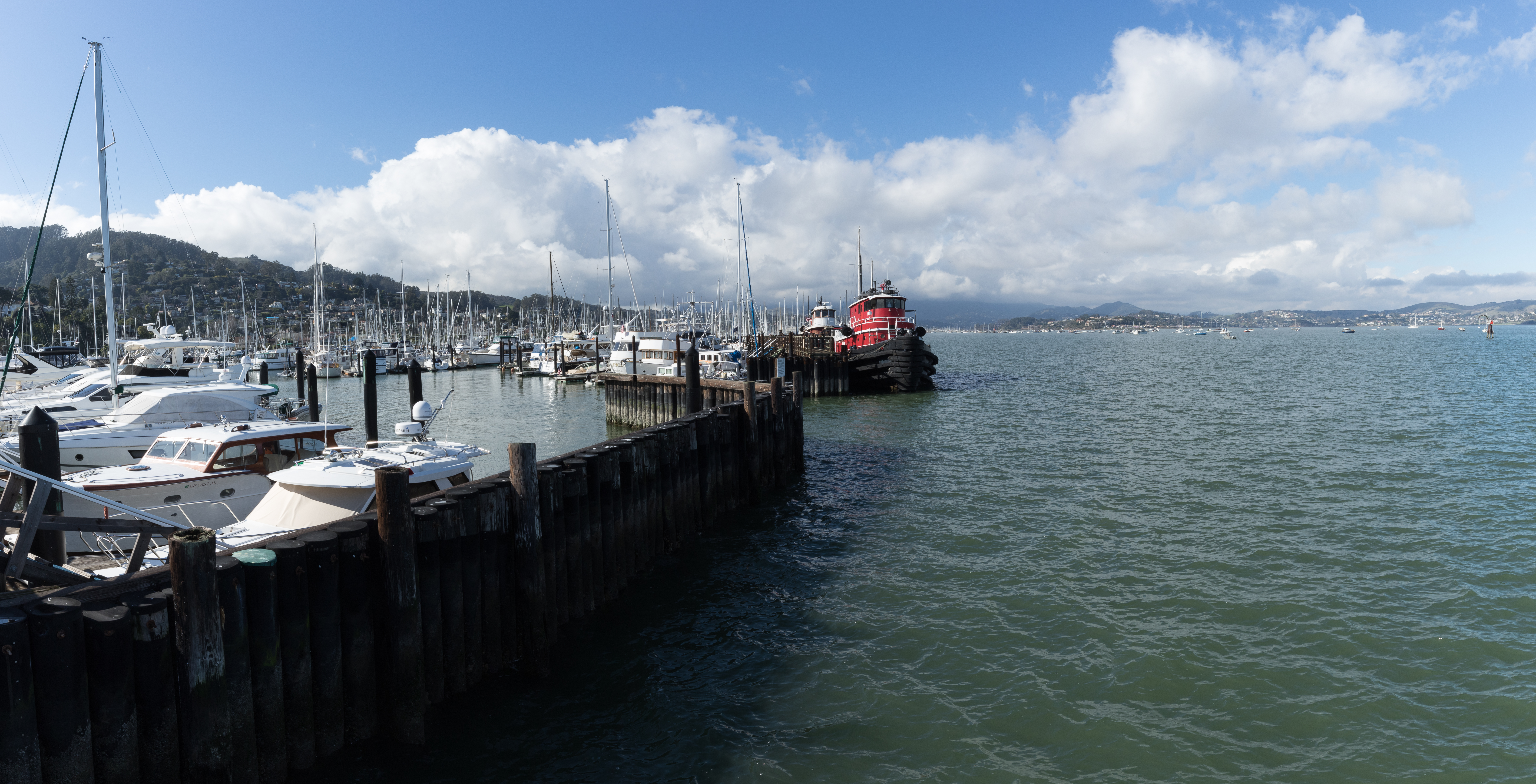 Sausalito Yacht Harbor as seen from the end of Spinnaker Drive in early February 2016.